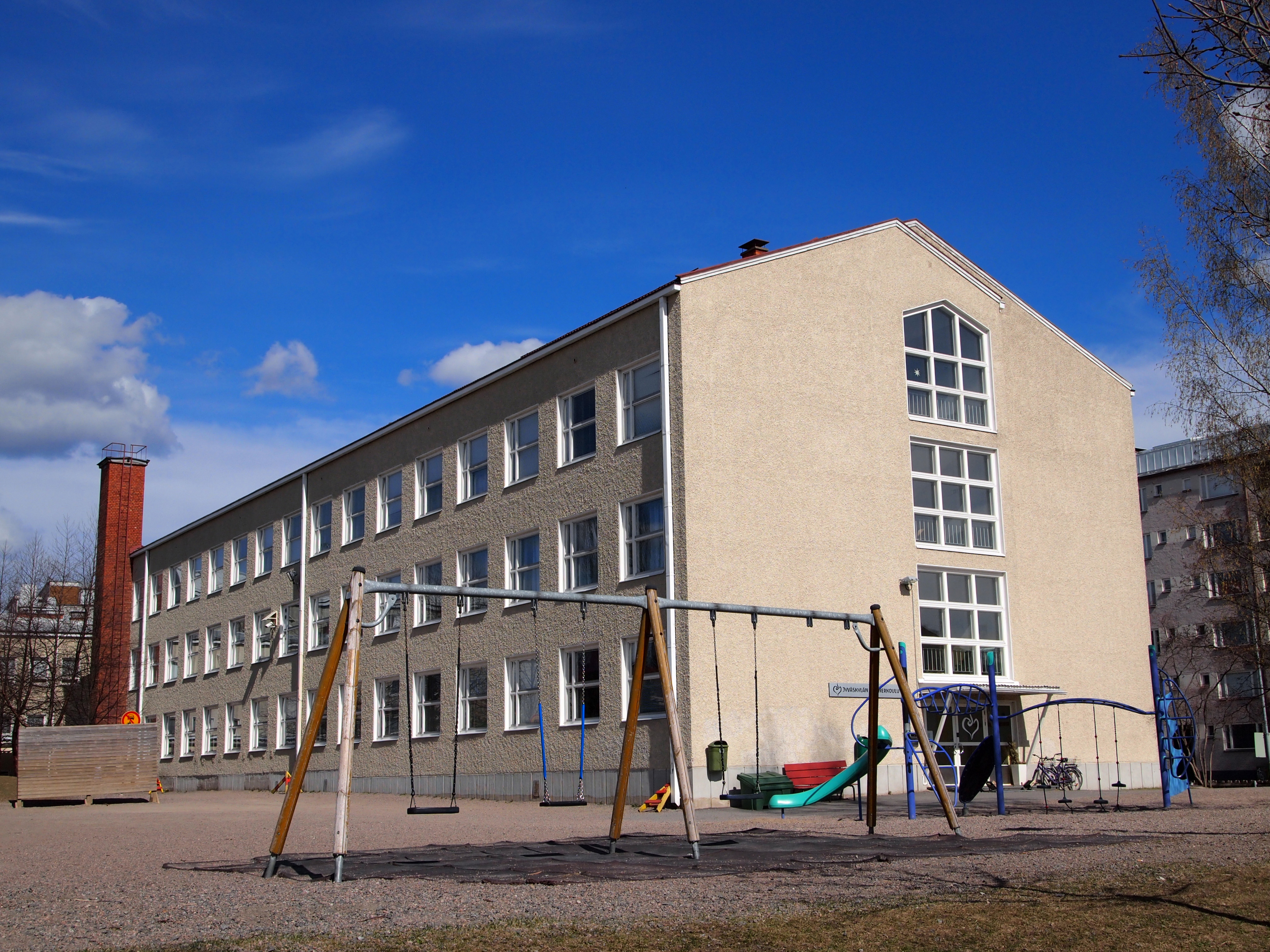 Rudolf Steiner School in Jyväskylä.